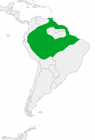 Distribution Silvered Antbird (Sclateria naevia)